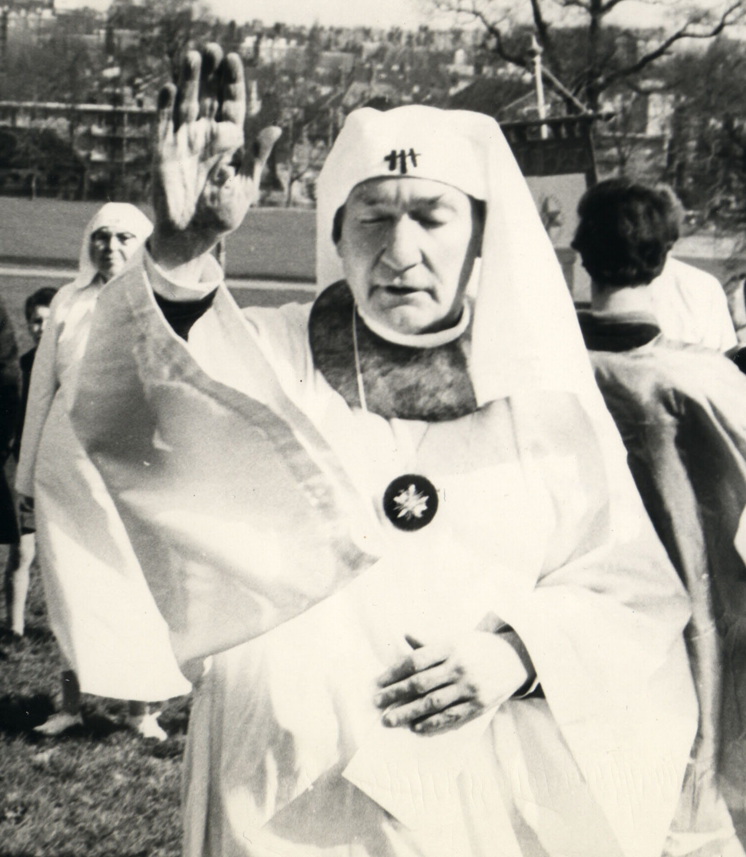 Ross Nichols giving peace to a direction at the Spring Equinox ceremony of the Order of Bards Ovates & Druids on Parliament Hill, London, March 1967